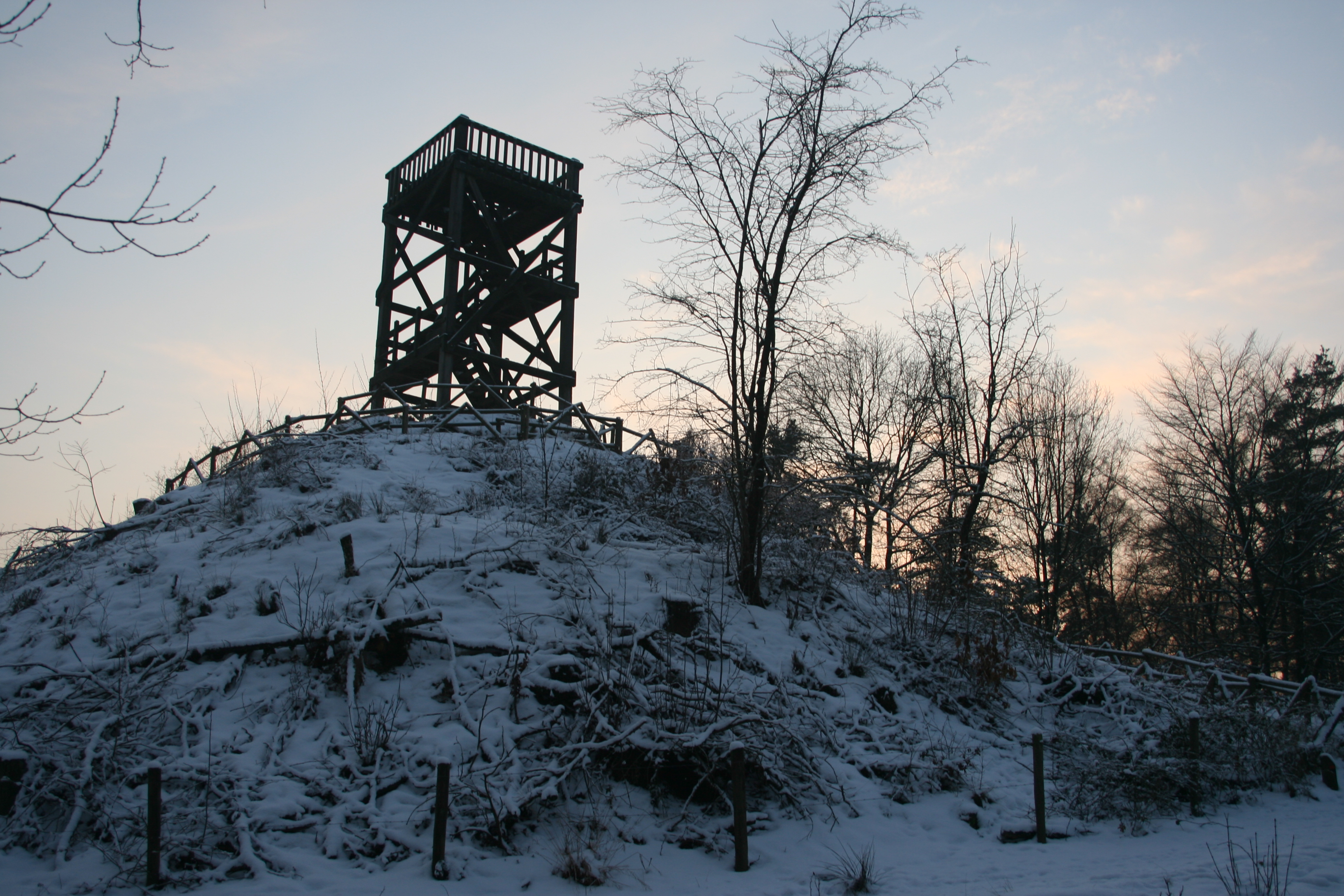 The "Emma Piramide" with its wooden tower.